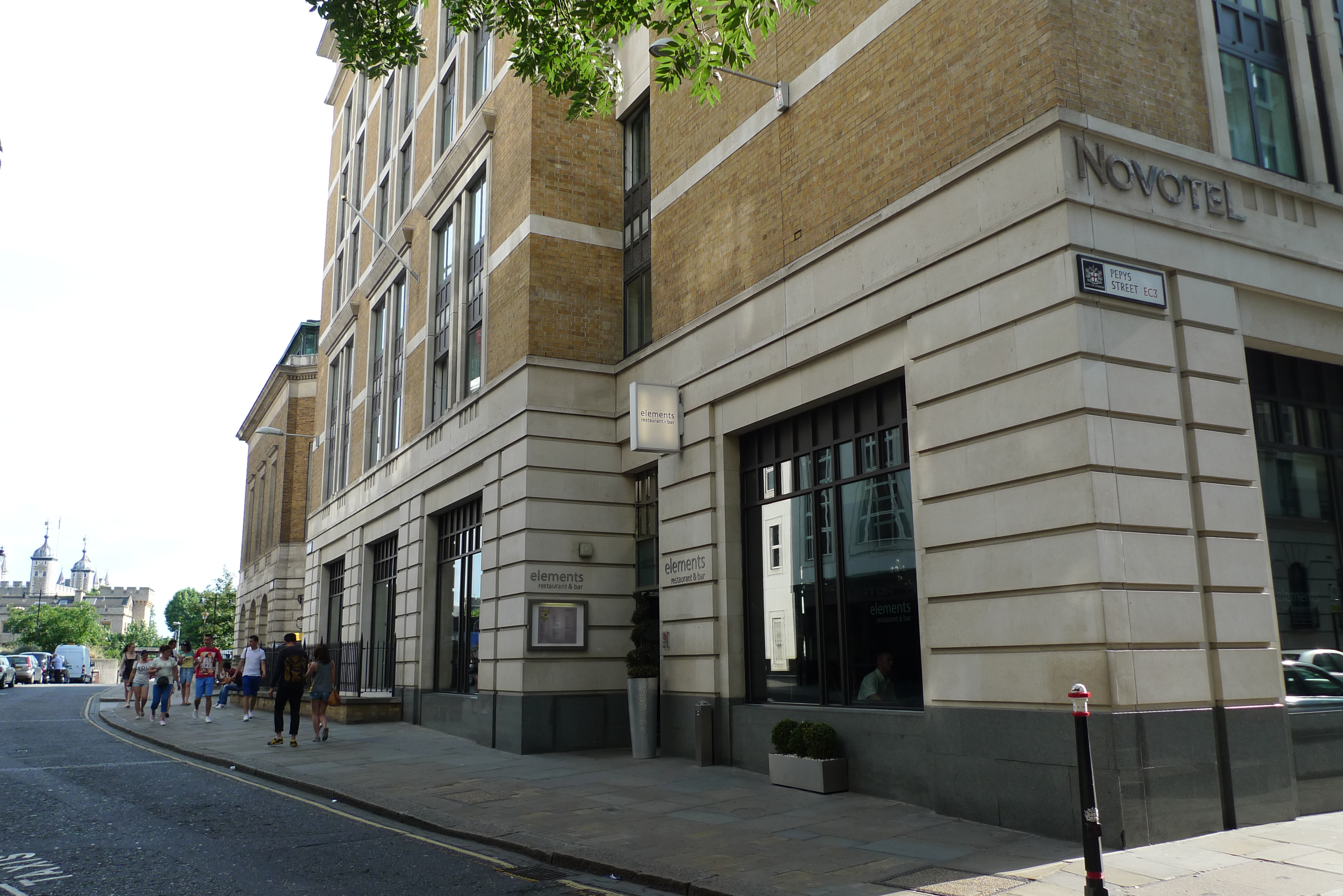 A bar in the Novotel by Fenchurch Street station , opposite Isis Bar . Since renamed as Keepers Kitchen and Bar . ( Photo of it as Pepys Bar. ) Address: Hotel Novotel London Tower Bridge, 10 Pepys Street. Former Name(s): Pepys Bar. Owner: Novotel Hotels ( website ). Links: London Pubology (Keepers)